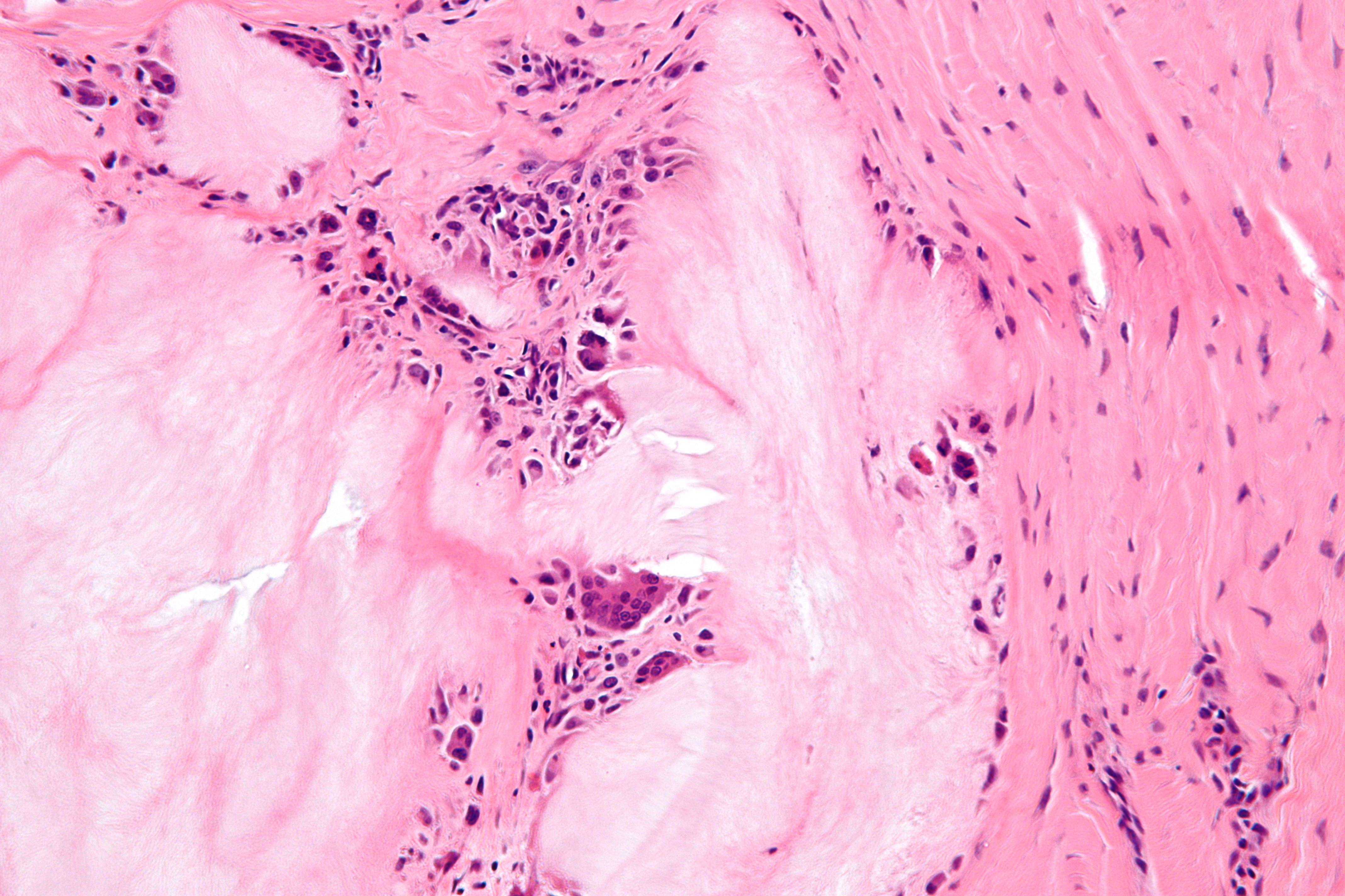 High magnification micrograph of a gouty tophus. H&E stain. See also Gout. Tophus. Related images Low mag. Intermed. mag. High mag. Very high mag.